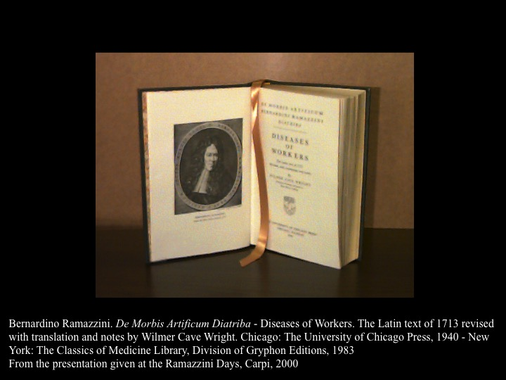 Bernardino Ramazzini. De Morbis Artificum Diatriba - Diseases of Workers. The Latin text of 1713 revised with translation and notes by Wilmer Cave Wright. Chicago: The University of Chicago Press, 1940 - New York: The Classics of Medicine Library, Division of Gryphon Editions, 1983�From the presentation given at the Ramazzini Days, Carpi, 2000